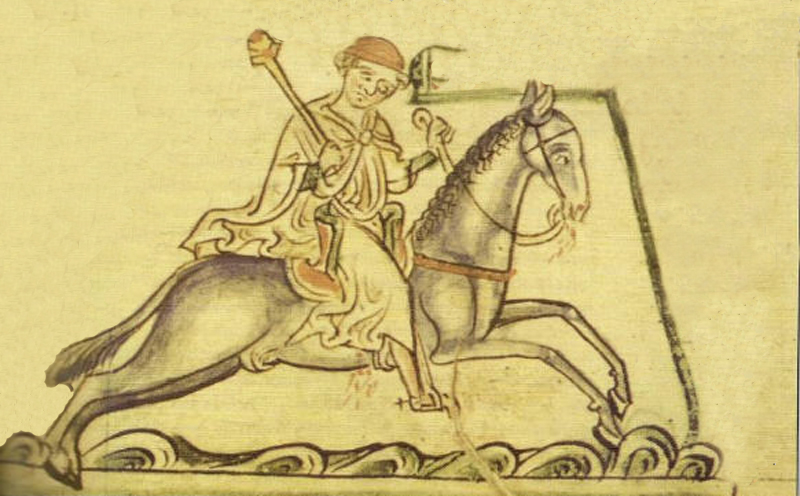 Inocent III flees from the persecution of Frederick II (Matthew Paris 1248)